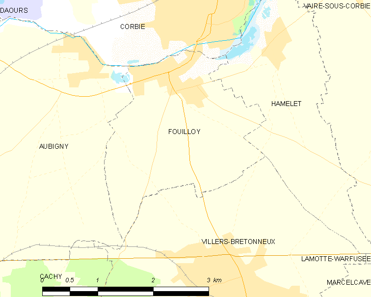 Map of French municipality Fouilloy